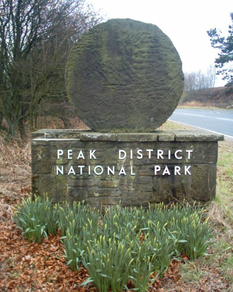 Peak District entrance stone on Hathersage Road, Sheffield.